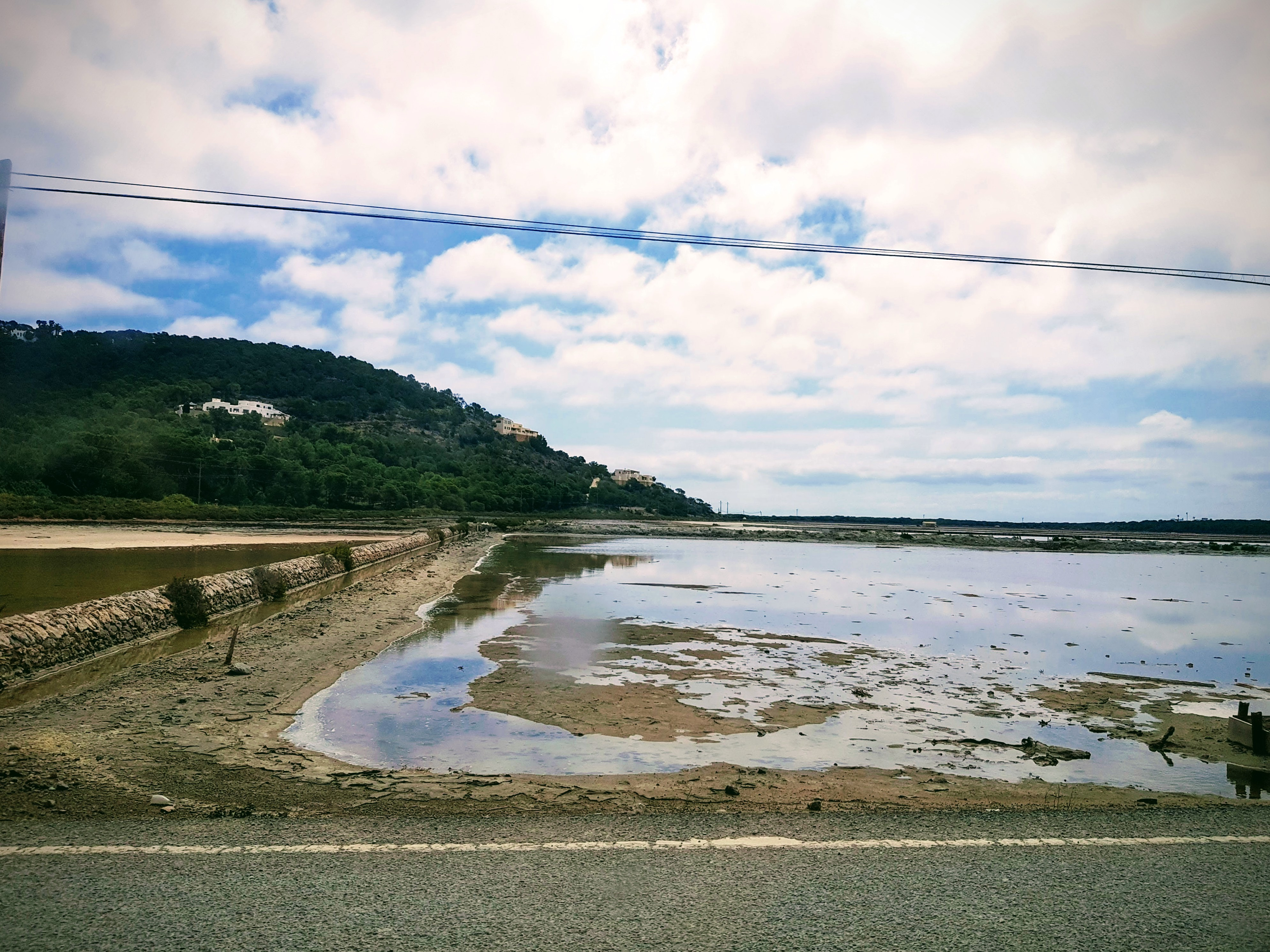 Salt evaporation pond, Ses Salines, Ibiza Аҧсшәа: Ses Salines, Ibiza This is a photography of a Special Area of Conservation in Spain with the ID: ES0000084. Natura2000 entry, EEA entry